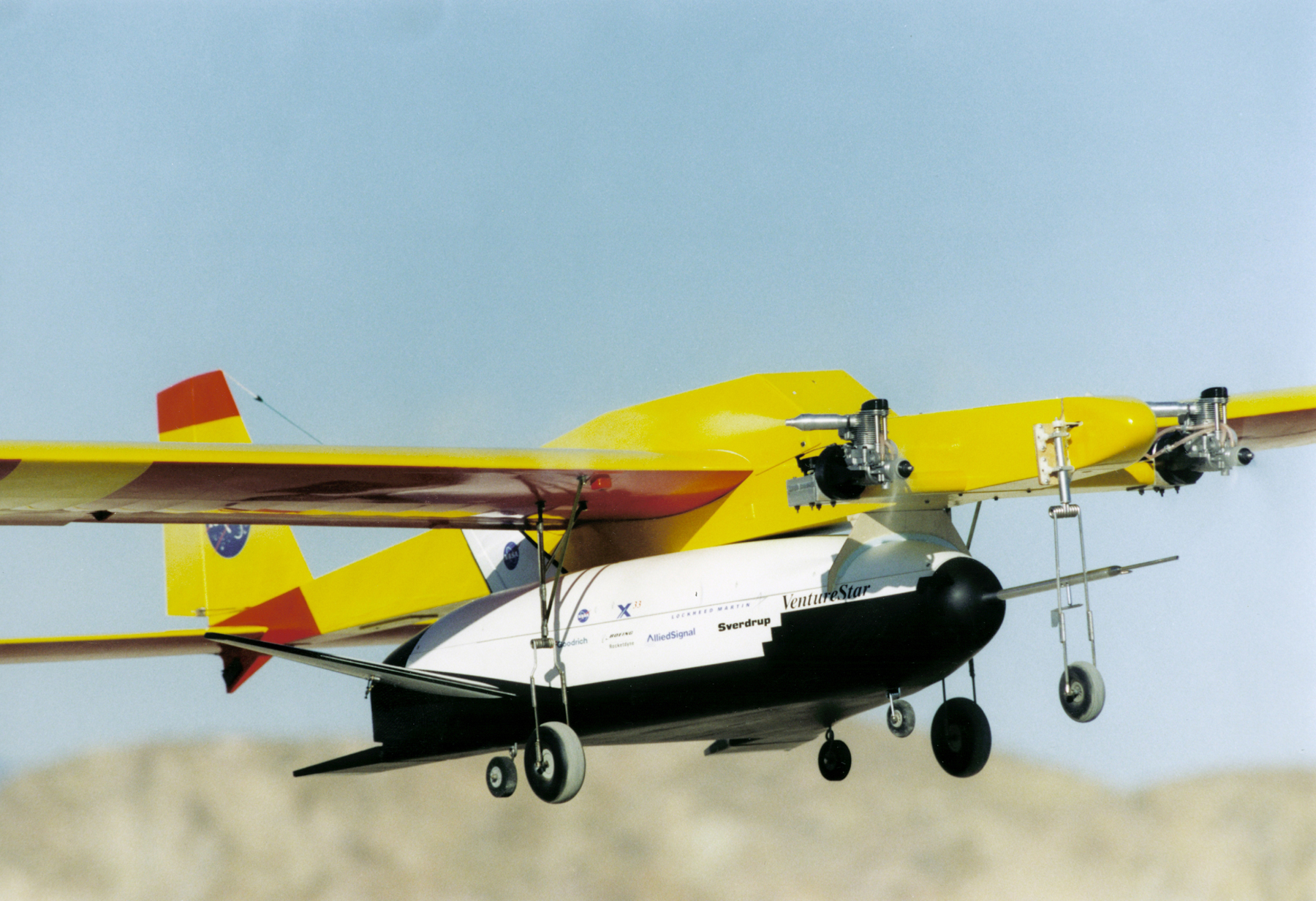 A radio controlled model aircraft, acting as a miniature mothership, carries aloft a model of the X-33. Dryden Flight Research Center engineer R. Dale Reed began using model drop tests in the early 1960s to test different lifting body shapes. This included the first tests of the M2-F1, and later the M2-F2, Hyper III, and X-38 designs. The X-33 model is mounted under the Mothership's right boom. After reaching the desired altitude, the X-33 model was released and glided back to a landing.